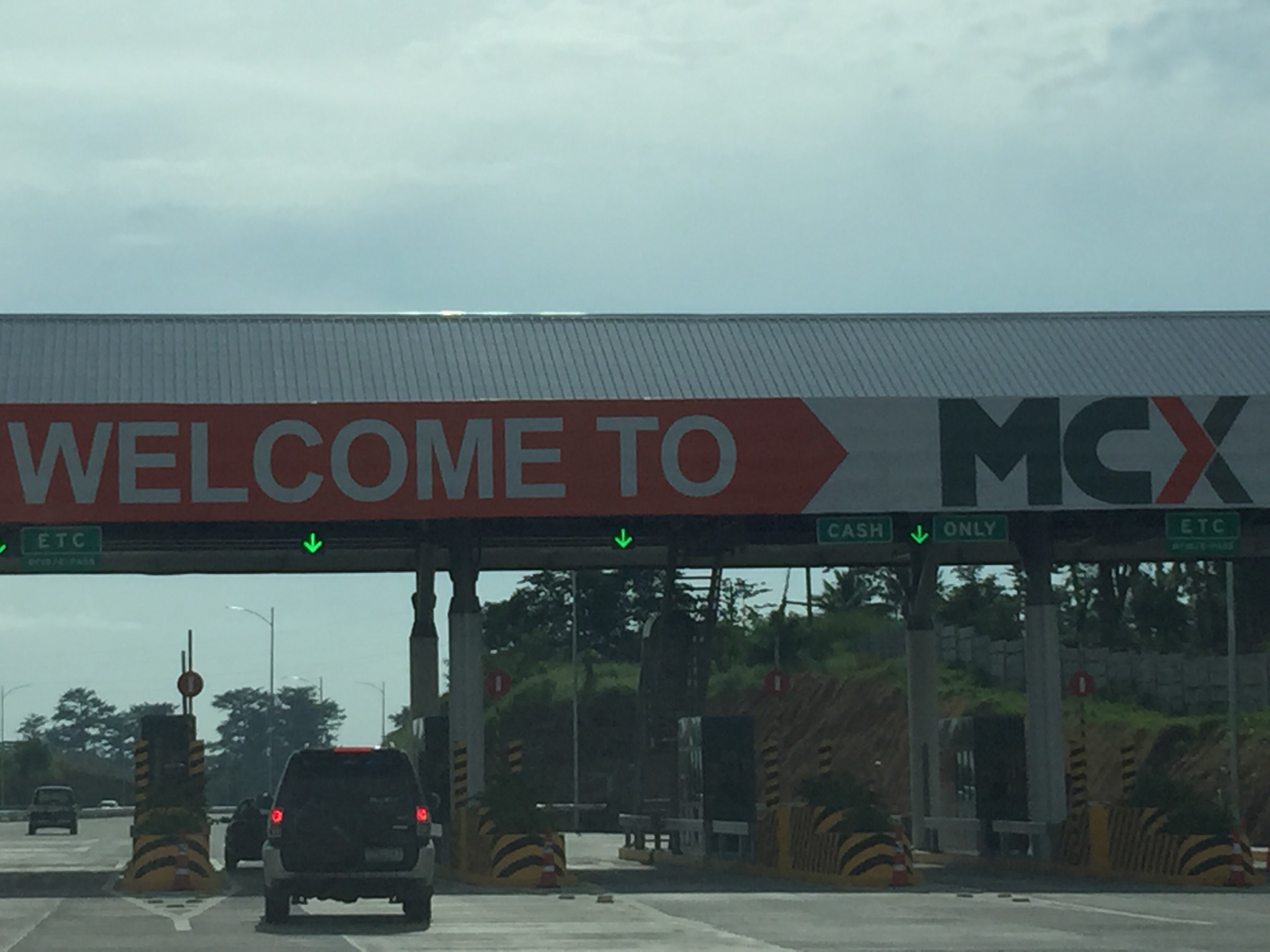 Muntinlupa–Cavite Expressway Toll Plaza, Metro Manila, Philippines